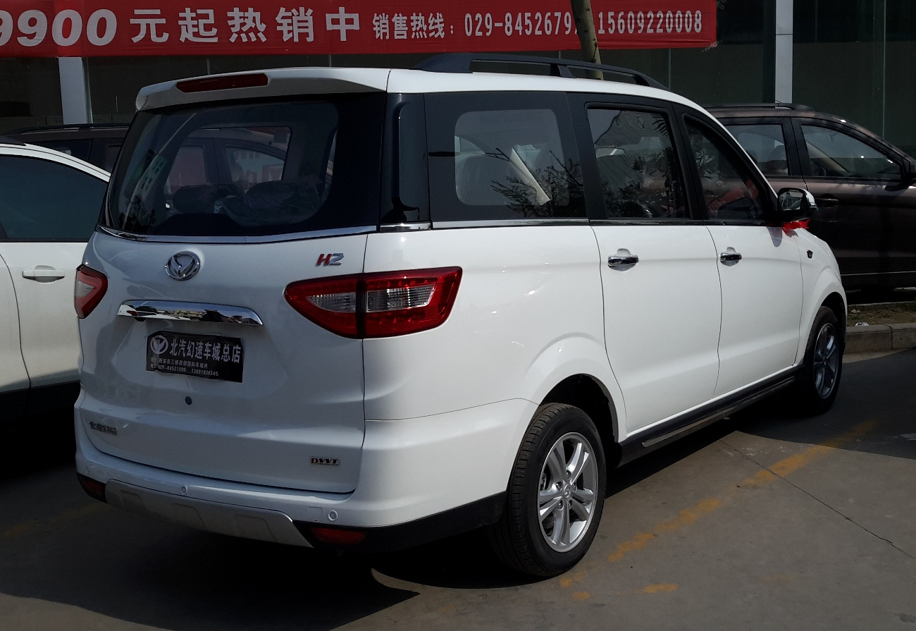 Huansu H2 photographed in Xi'an, Shaanxi province, China.